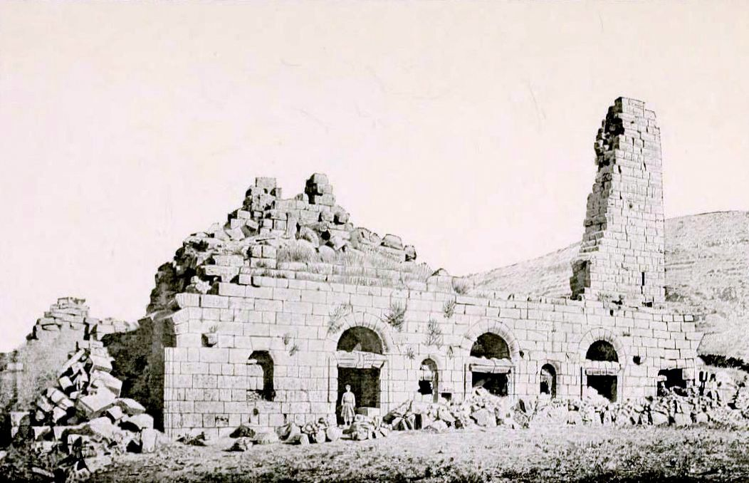 Odeon at Amman